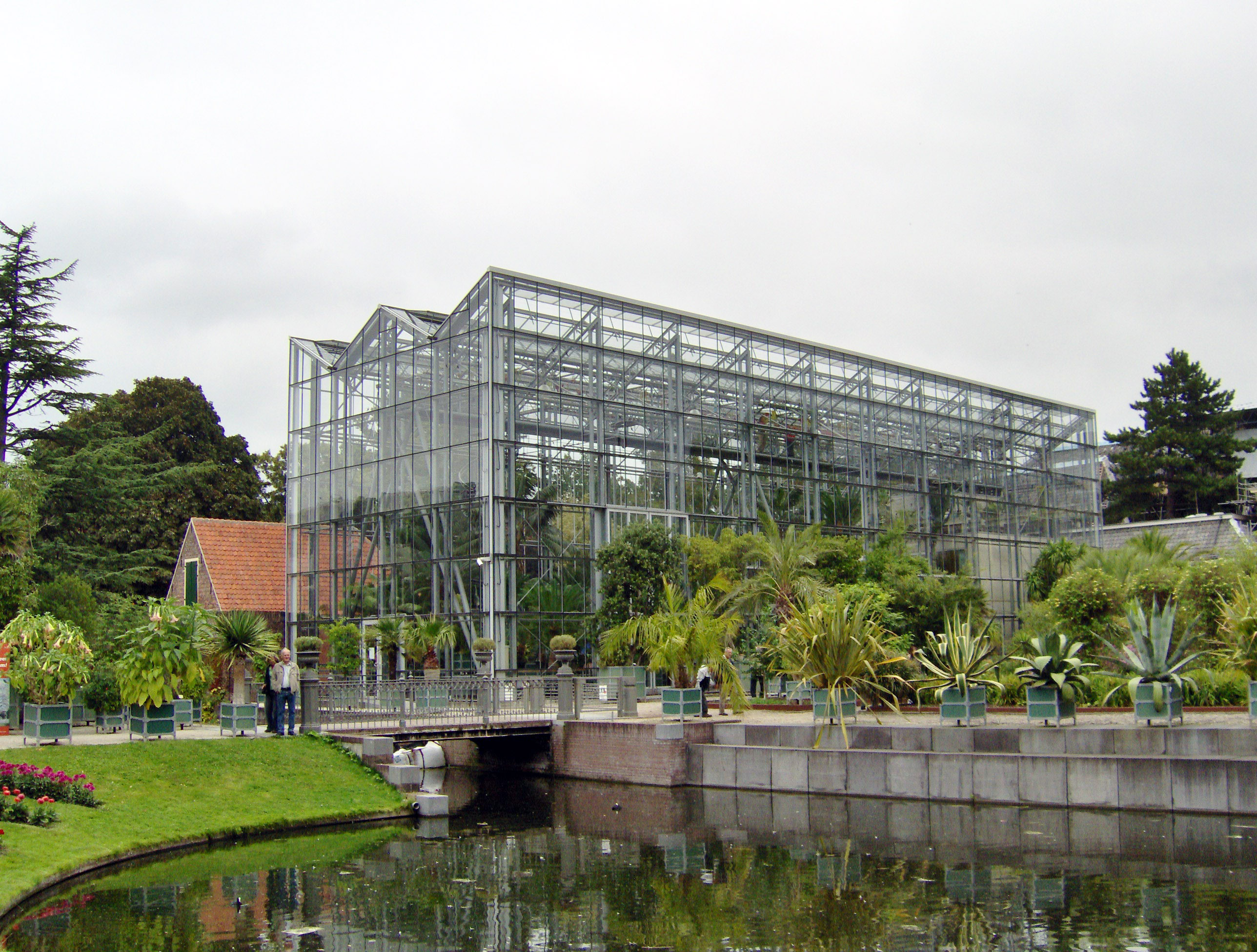 The Wintertuin (winter garden), the entrance building of the Hortus botanicus in Leiden, the Netherlands.